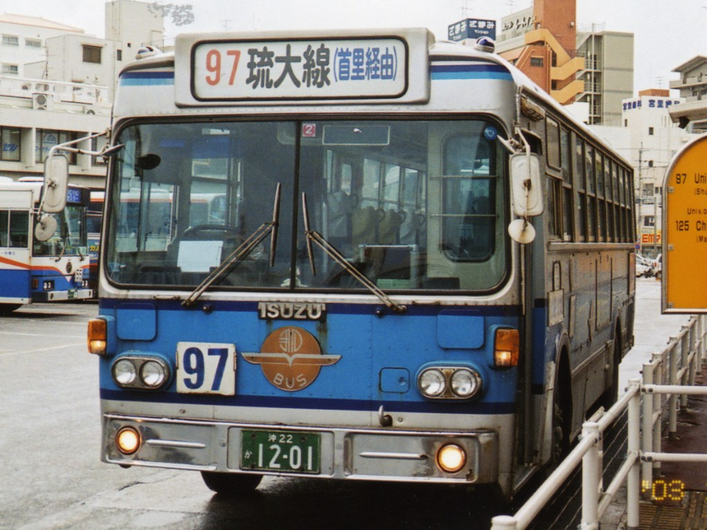 Naha Kotsu (Gin Bus)